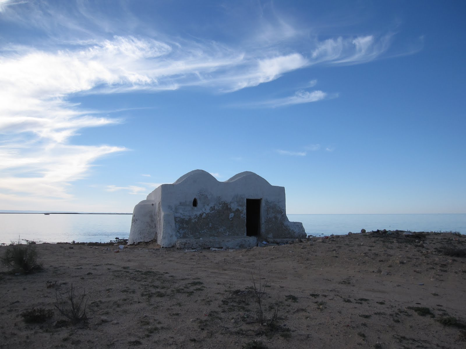 Actually a beach house, "So what I told you was true...from a certain point of view. " (Star Wars)